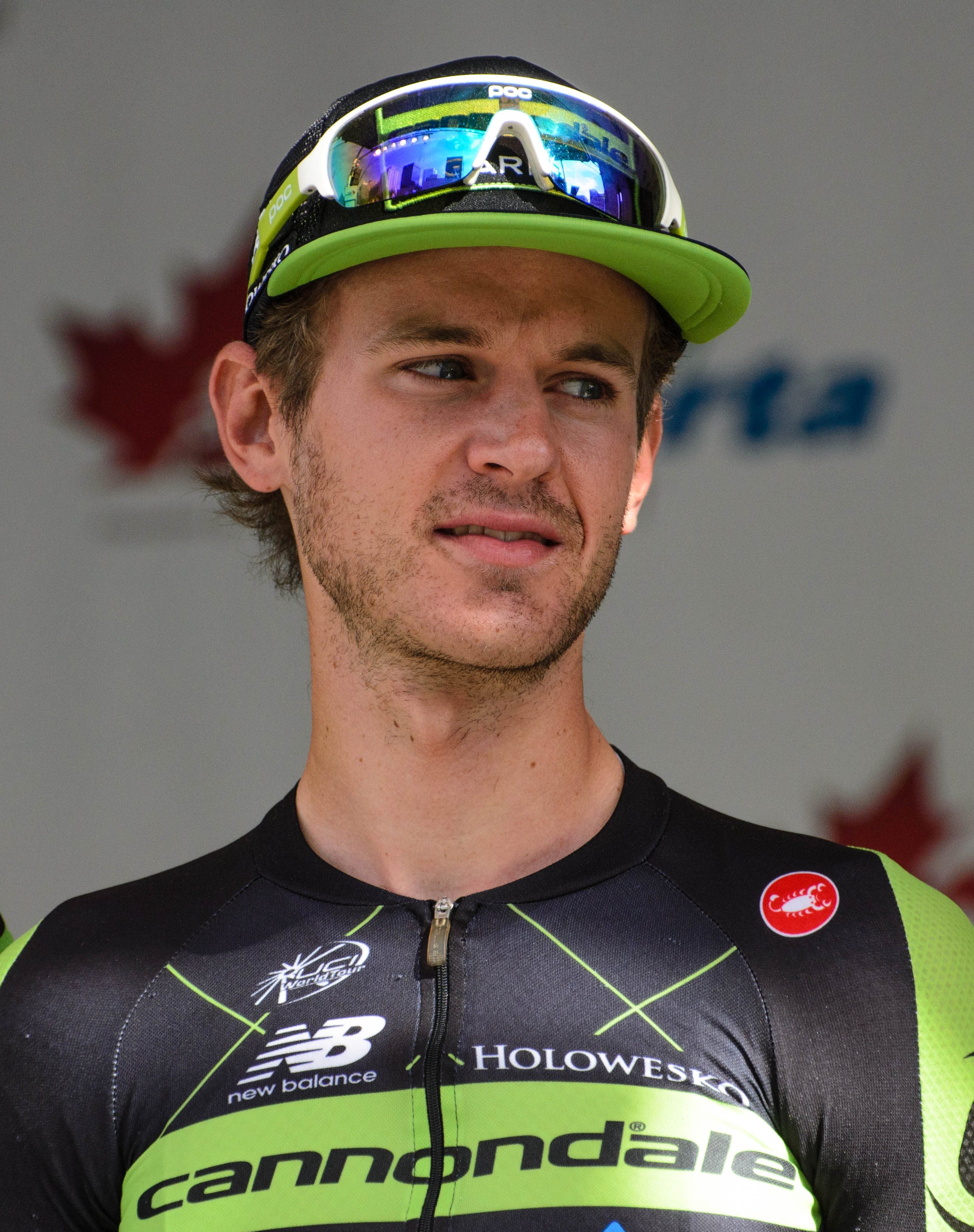 Nate Brown at the 2015 Tour of Alberta. Please attribute Connor Mah if used elsewhere